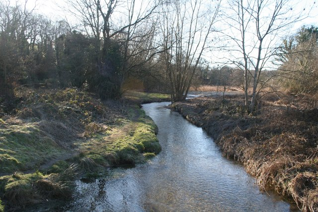 The Clywedog clear as Crystal., near to Rhostyllen, Wrexham/Wrecsam, Wales. In the late winter sunshine, the river sparkles looking upstream towards Bersham Church.